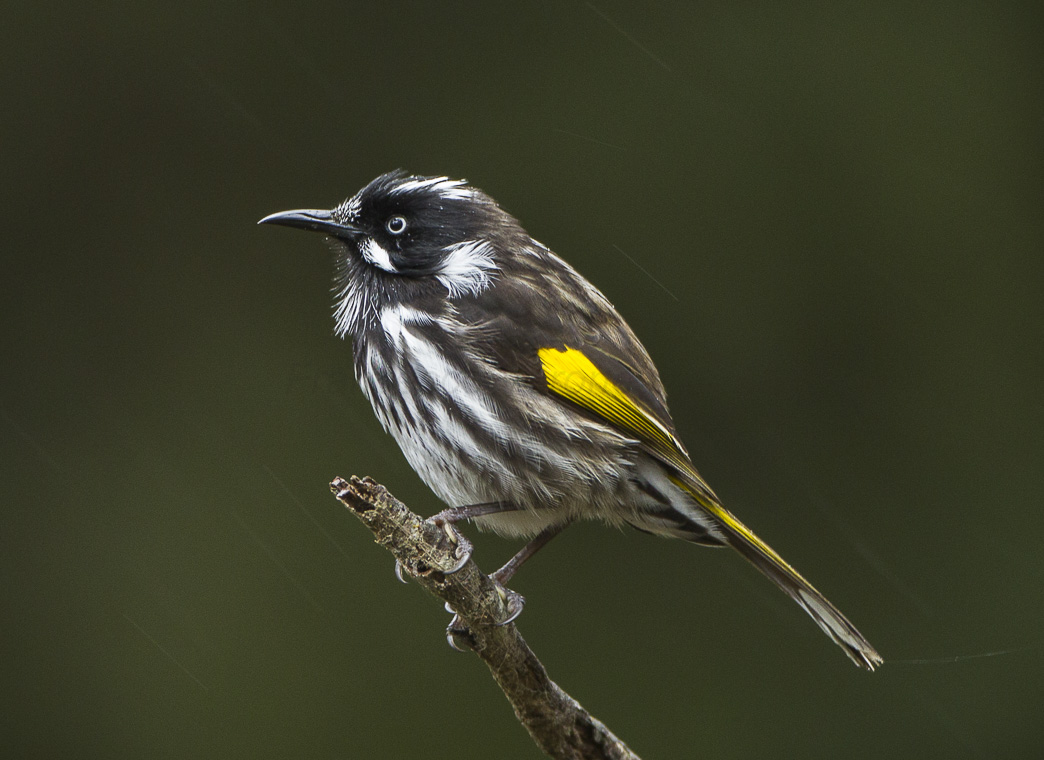 New Holland Honeyeater - Tasmania_S4E5910